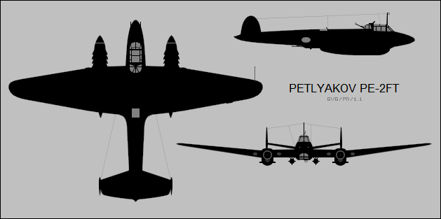 3view silhouettes of the Petlyakov Pe-2FT